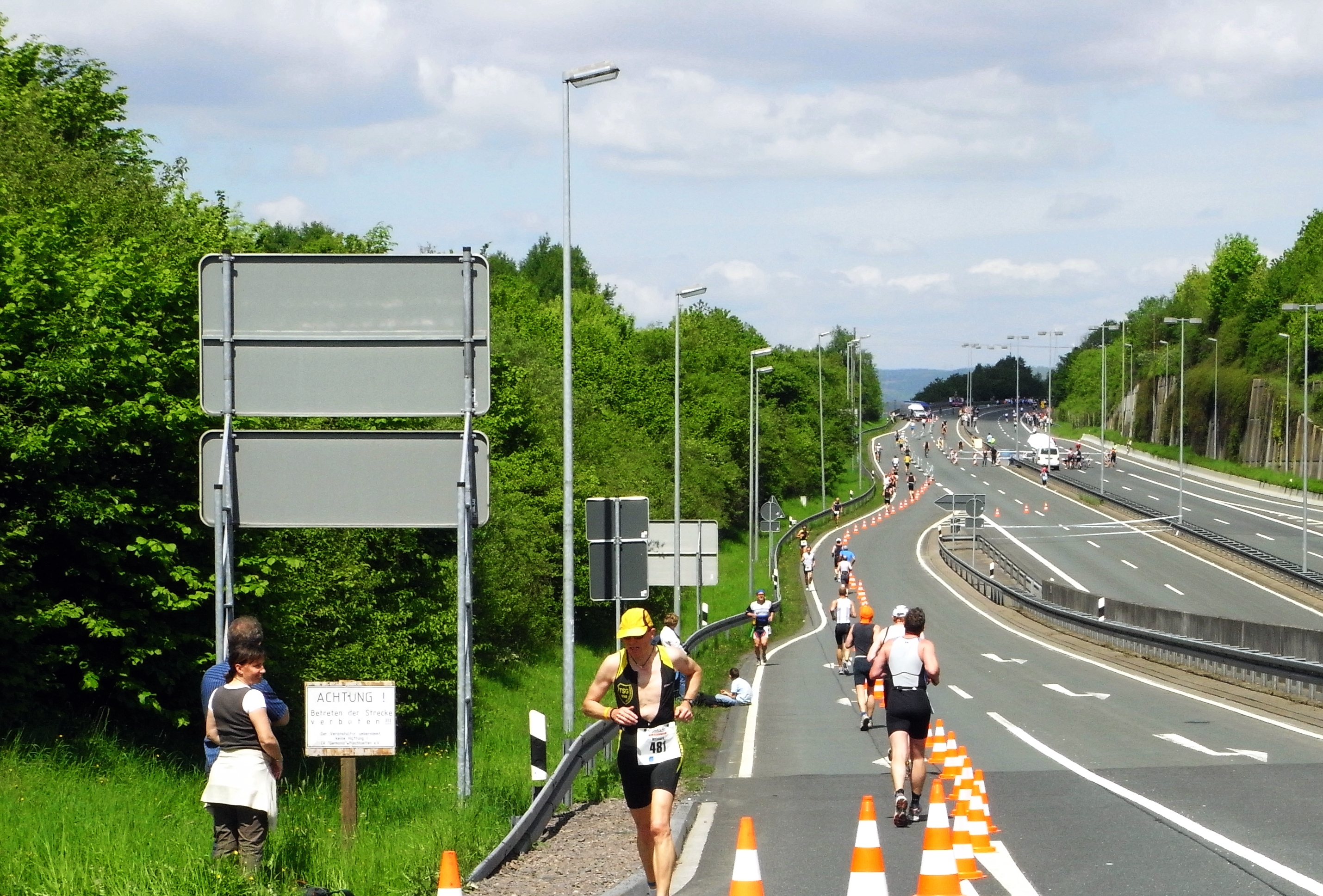 "Siegerland-Cup" (triathlon) in Kreuztal-Buschhütten, Germany